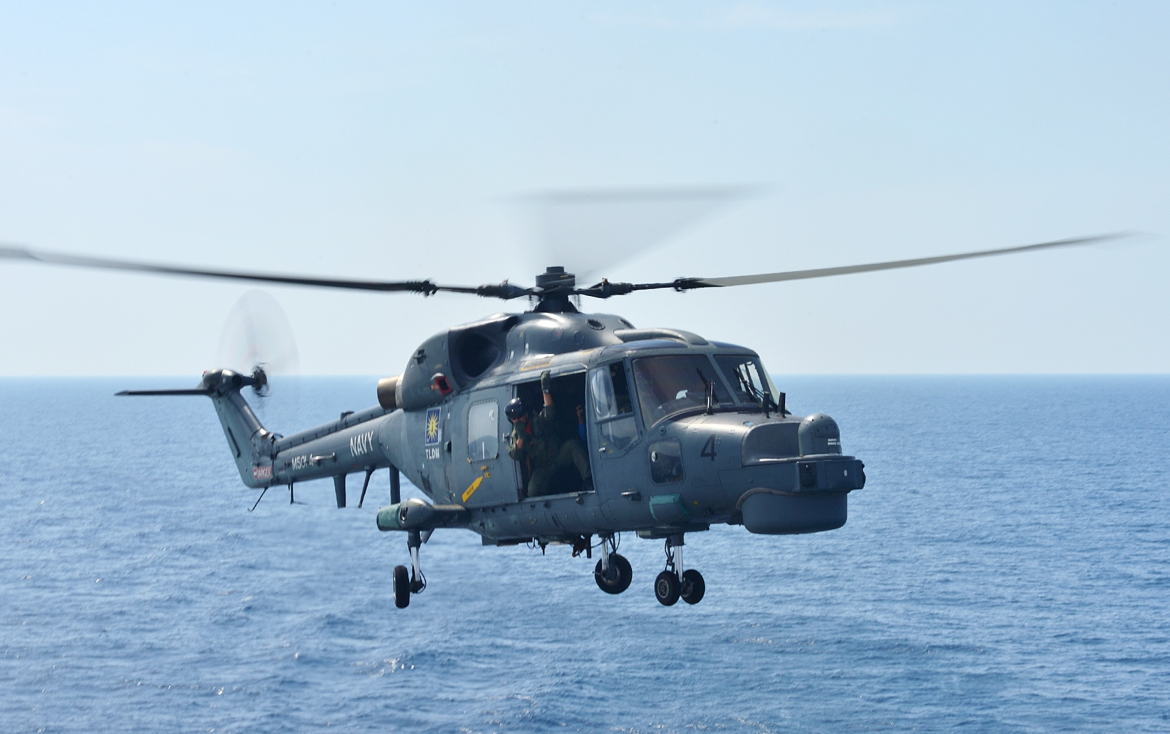 A Royal Malaysian Navy Super Lynx helicopter prepares to land on the flight deck of the littoral combat ship USS Freedom (LCS 1) in the South China Sea during landing qualifications June 18, 2013, as part of Cooperation Afloat Readiness and Training (CARAT) 2013. The Super Lynx was the first foreign helicopter to land on the Freedom. CARAT is a series of bilateral exercises held annually in Southeast Asia to strengthen relationships and enhance force readiness.